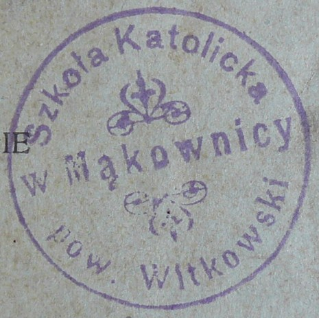 Stamp of Catholic School in Makownica.